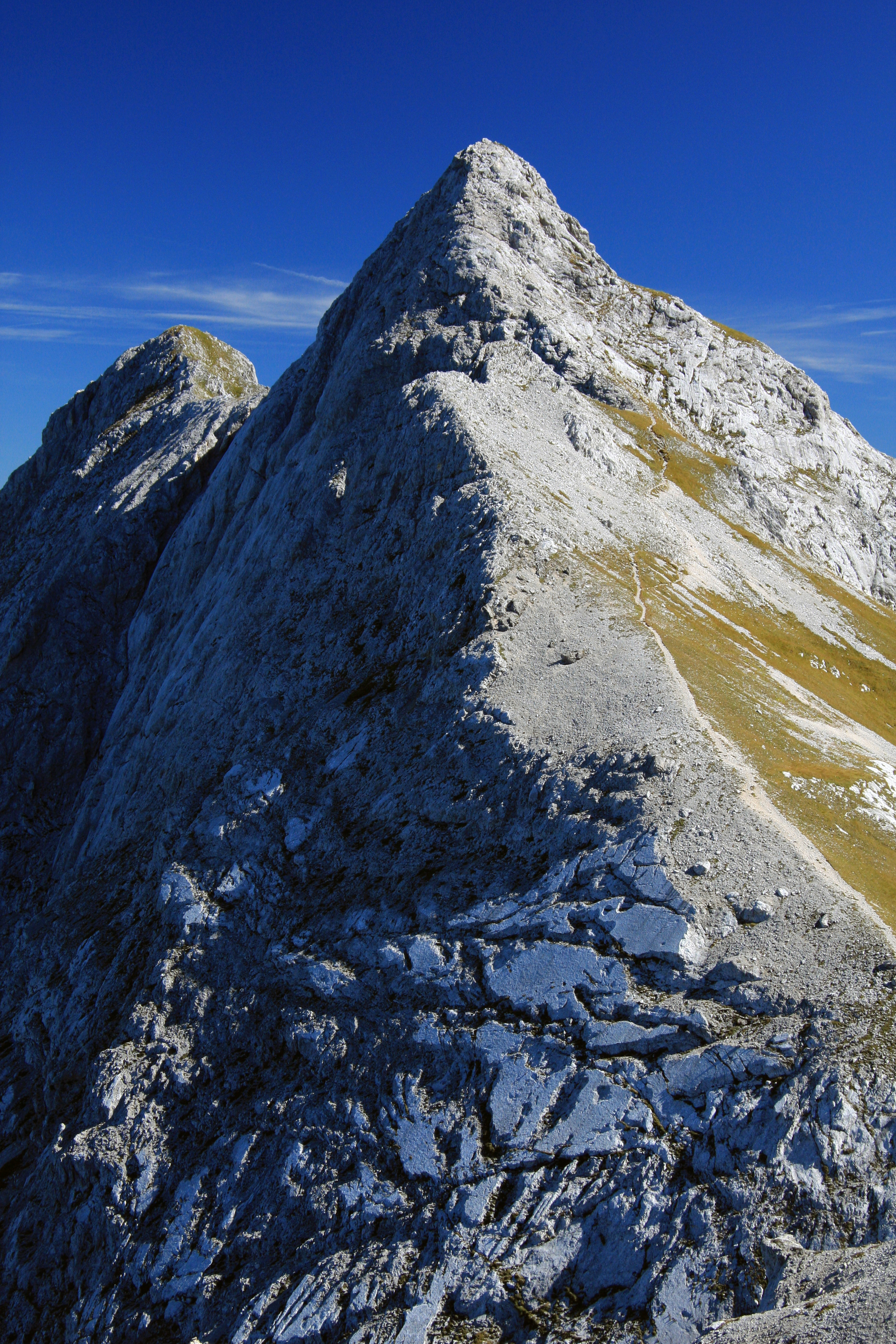 Southern Riffelspitze taken from Riffeltorkopf. In the back ground on the left you can see the Northern Riffelspitze.